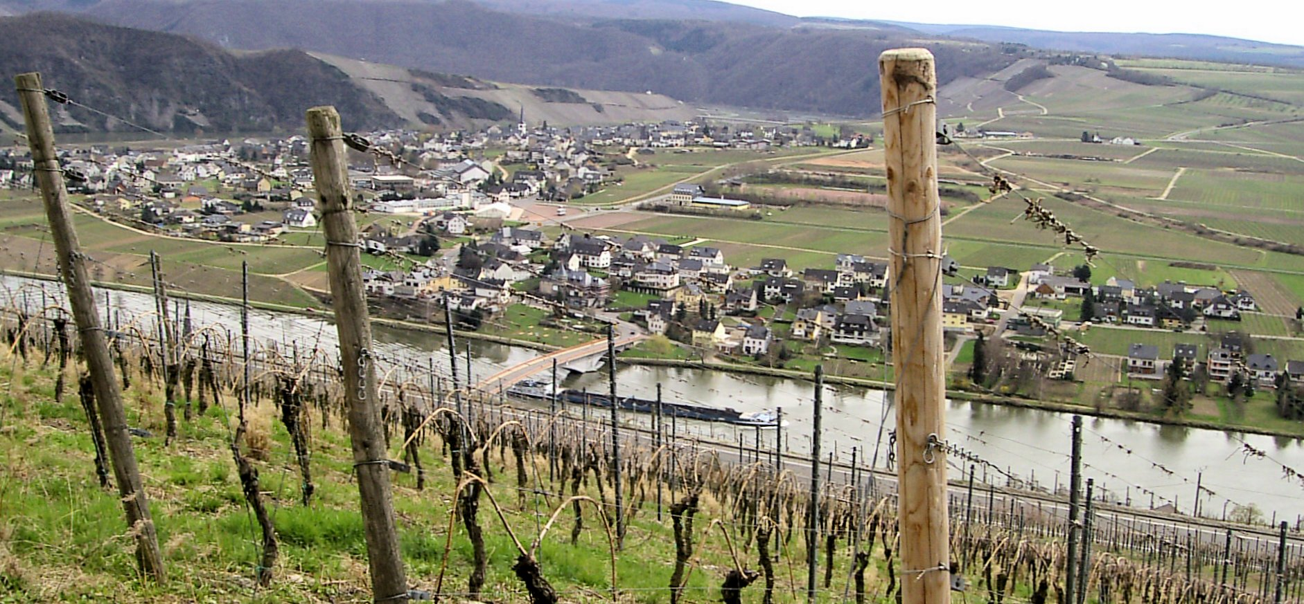 Piesport vineyard and Moselle River, Piesport, Germany